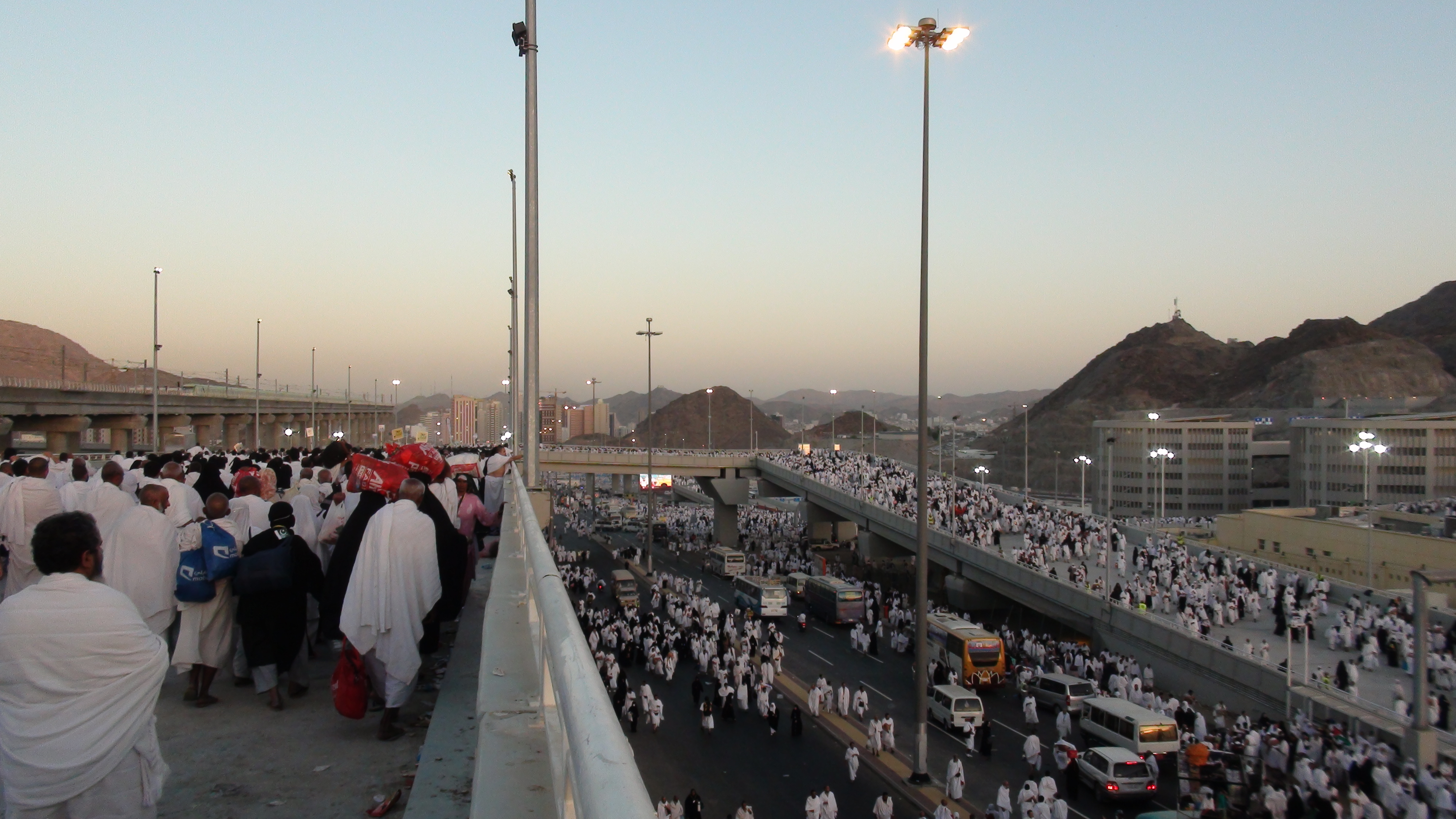 Jamarat Bridge in Mina